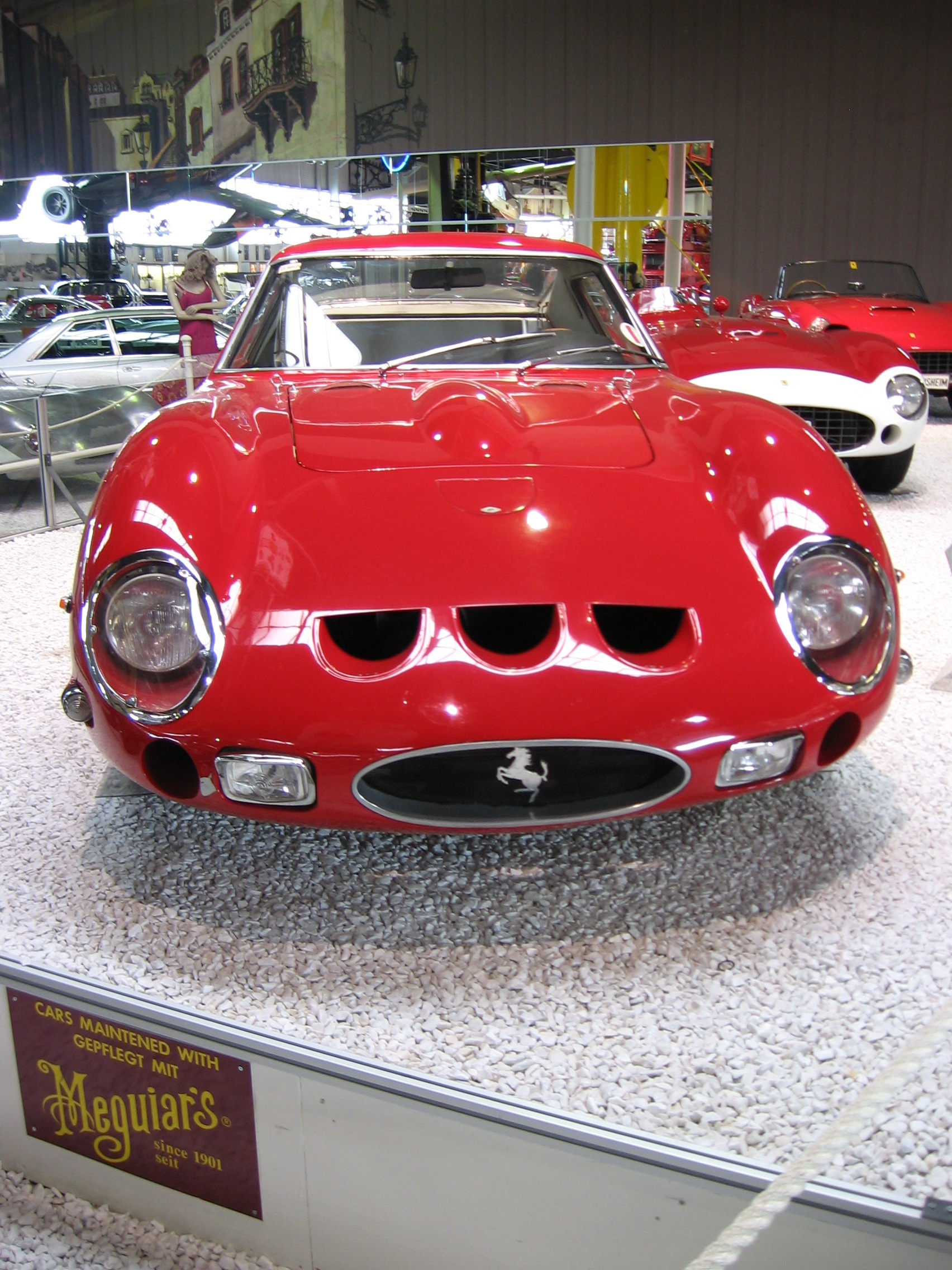 Ferrari F 250 GTO from 1963 at the Auto- und Technikmuseum Sinsheim / Germany. Picture taken in may 2006 by Christian Kath (me). This is a replica built on a 330 GT chassis.[1]